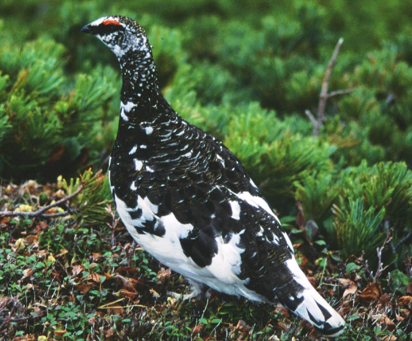 Rock Ptarmigan (Lagopus muta japonica, Lagopus mutus japonicus), female of summer plumage in Mount Otensho, Japan.